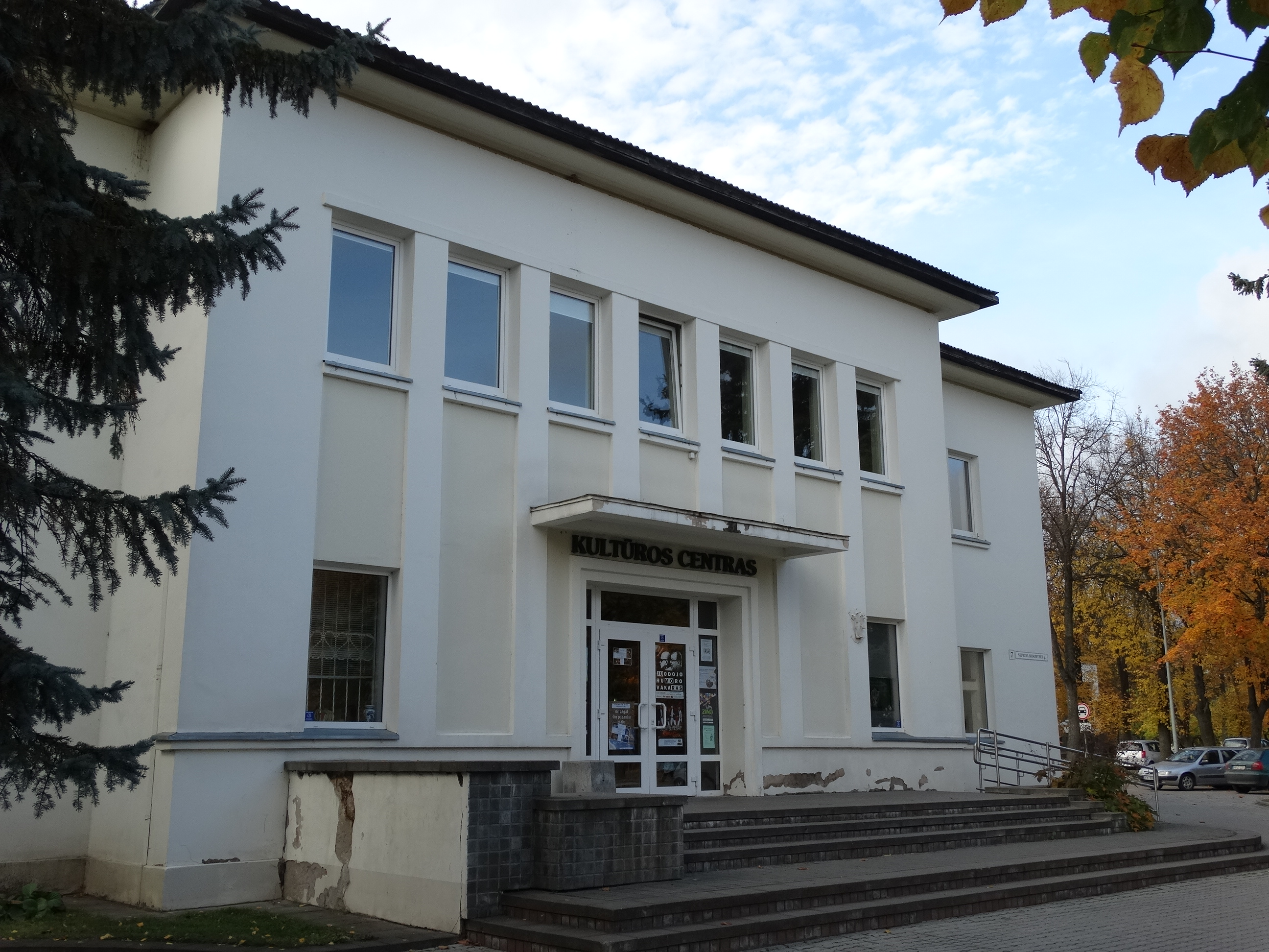 Centre of culture, Šakiai, Lithuania